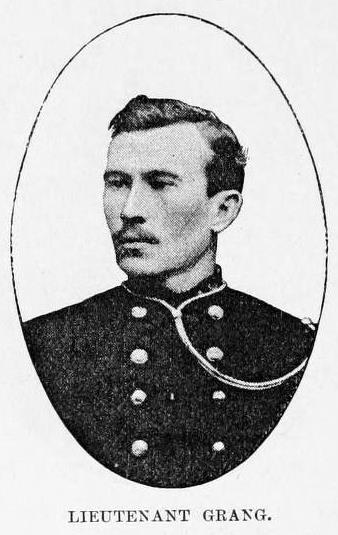 Pictures excerpted from HM Stanley's book "The Congo and the founding of its free state; a story of work and exploration (1885)"